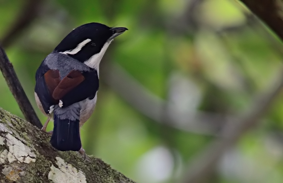 Blyth's Shrike-babbler Pteruthius aeralatus validirostris, Namdapha National Park, Arunachal Pradesh, India